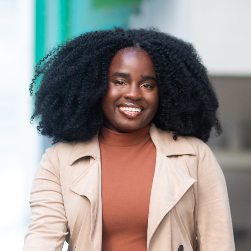 This is another photo of Anna Gifty Opoku-Agyeman.